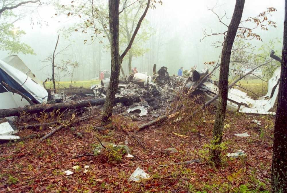 East Coast Aviation Services N16EJ wreckage